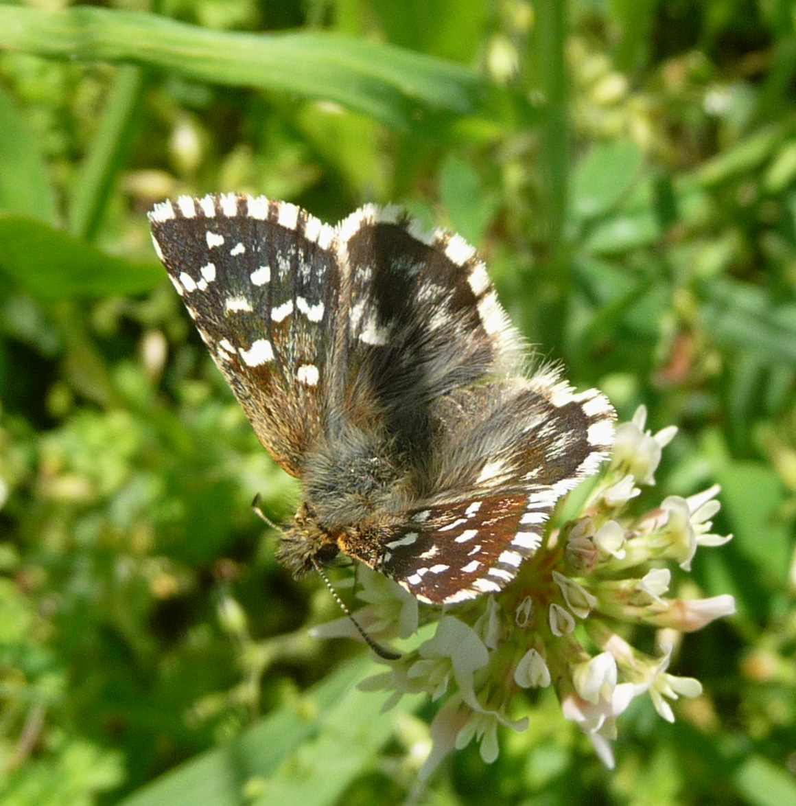 Southern Grizzled Skipper. Pyrgus malvoides. Hesperiidae